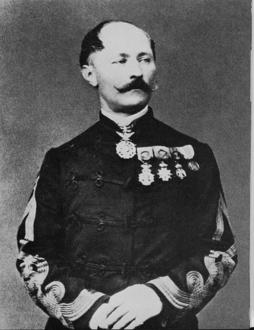 Baron Alfred Van der Smissen Commander of the Belgian Foreign Legion in Mexico